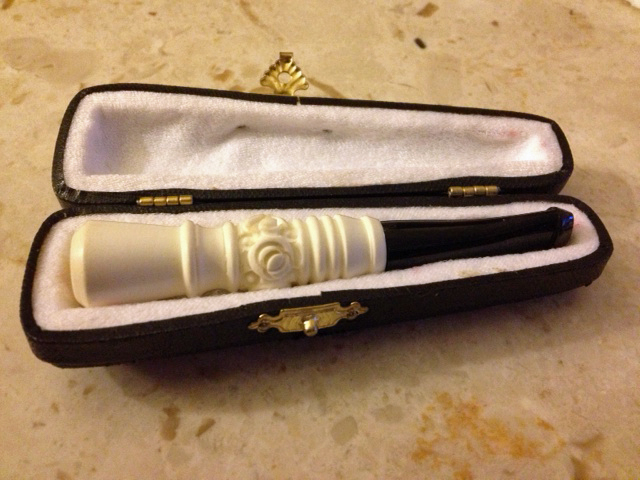 A Meerschaum cigarette holder in its own case. The cigarette holder is under 3 inches long.